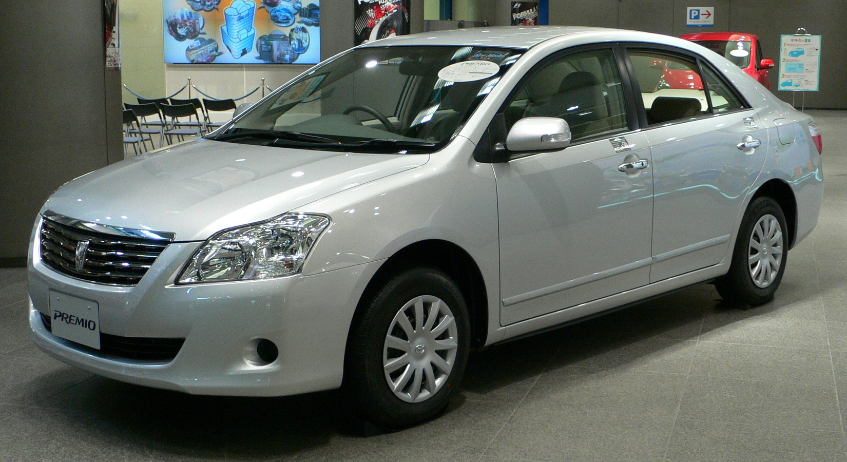 2nd generation Toyota Premio (2007 - ) photographed in AMLUX